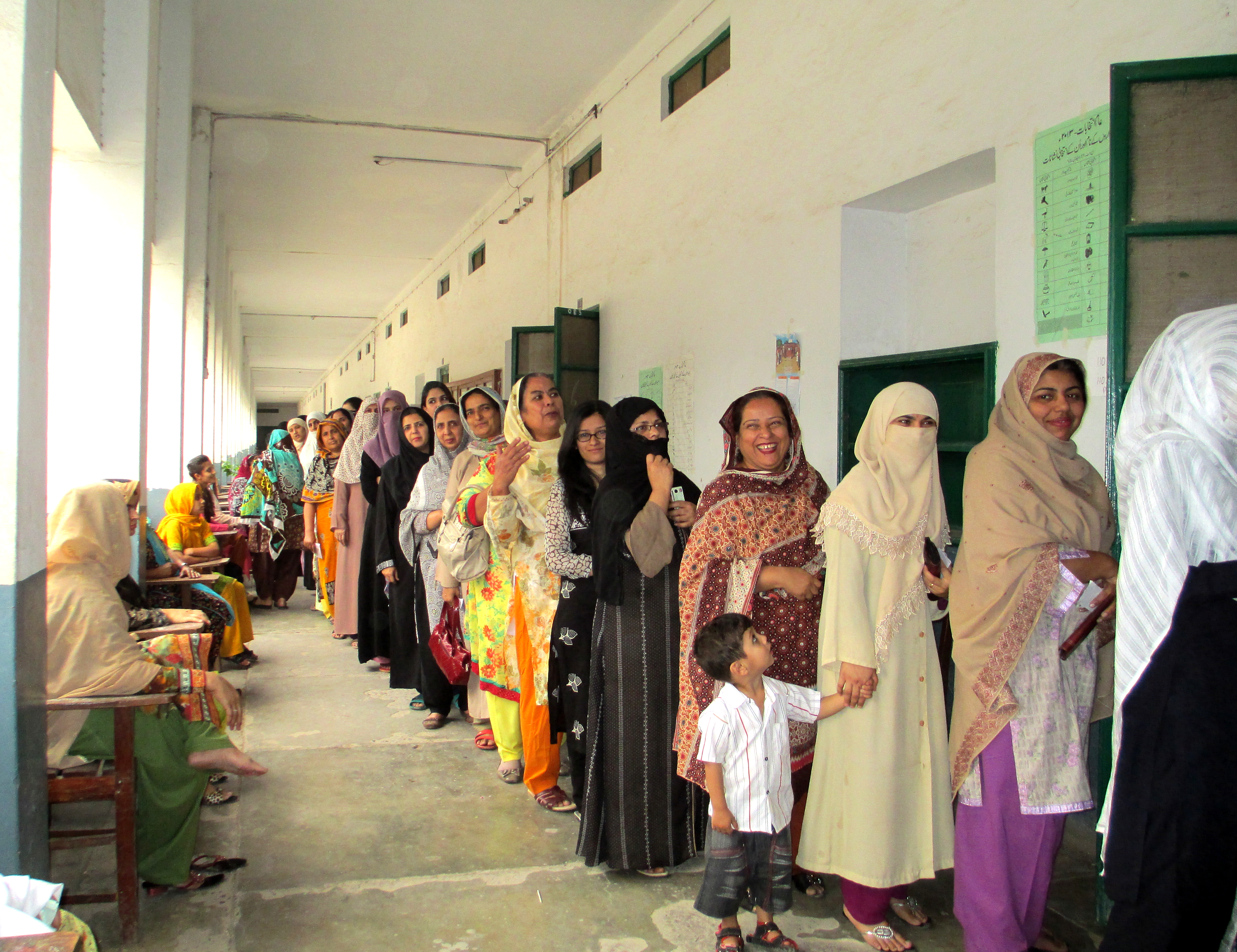 These women from Rawalpindi queued for their chance to have a say in Pakistan's elections this weekend. They join 100,000 women who have been helped to vote for the first time ever, thanks to UK aid: ow.ly/kYxkT